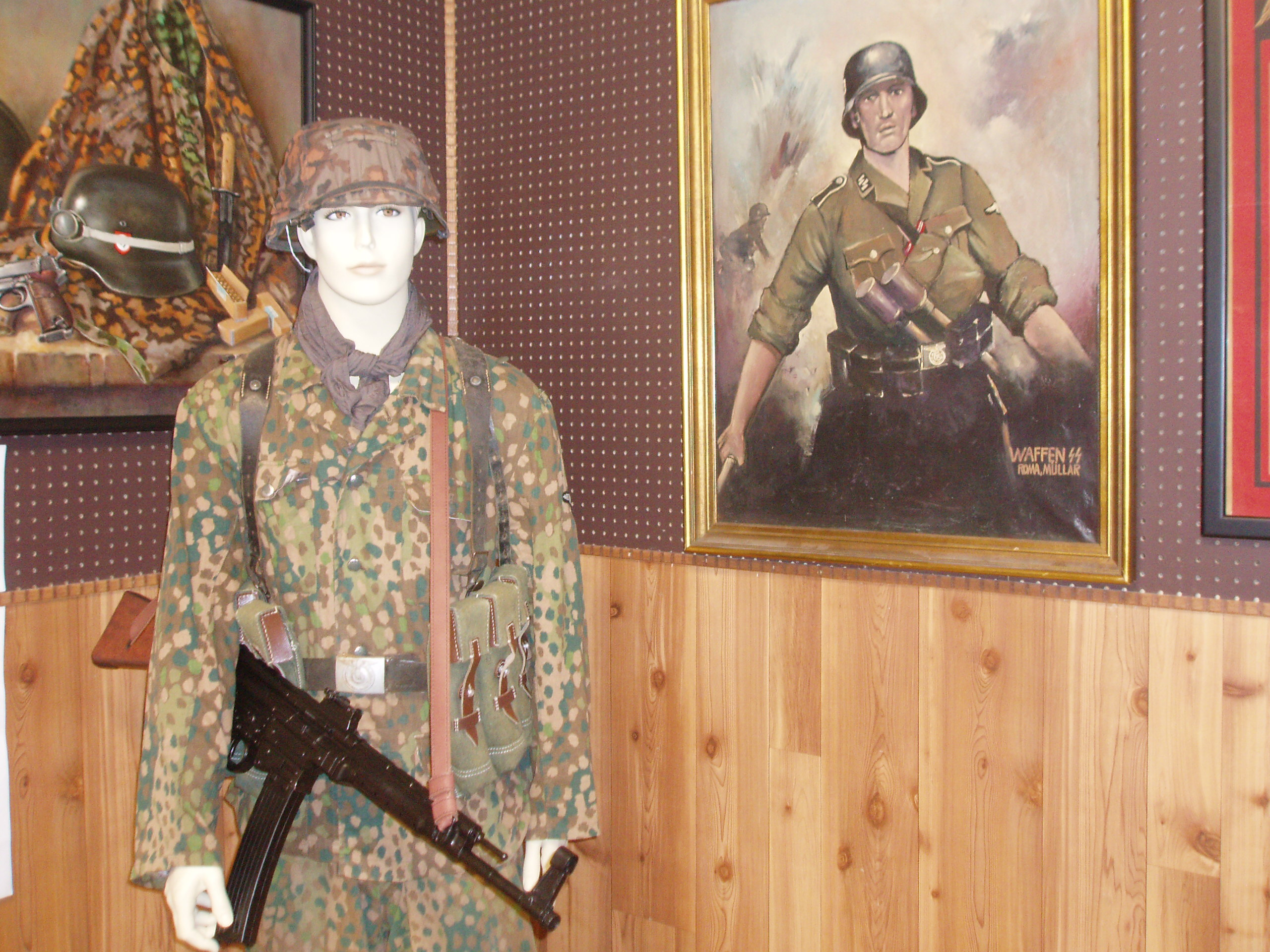 Waffen SS Soldier armed with MP 44 and original paintings in the background